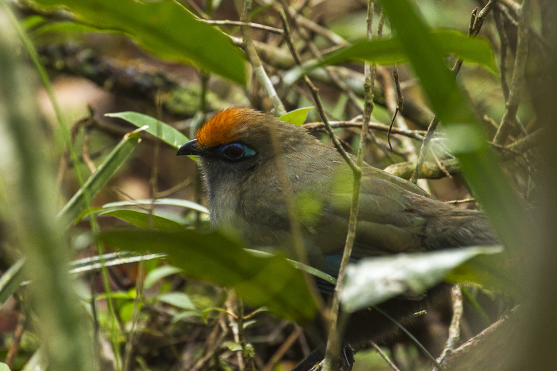 Red-fronted Coua - Andasibè - Madagascar_MG_0718